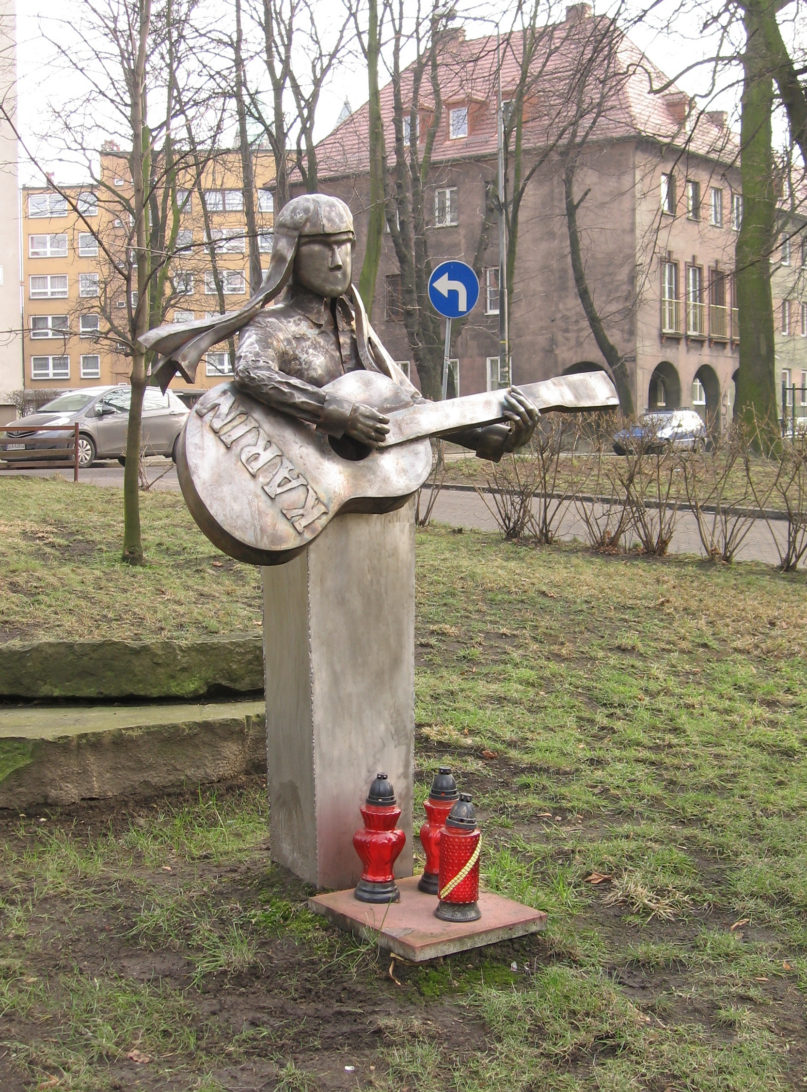 The outdoor sculpture in memory of Karin Stanek in Karin Stanek square, Bytom, Poland, projected by Jacek Wichrowski, made of stainless steel by Galeria Sztuki Użytkowej „Stalowe Anioły”, unveiled 25-09-2013.